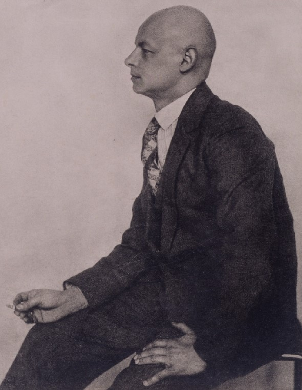 Hugo Erfurth - Portrait des Malers Oskar Schlemmer. Öldruck, 36,5 x 28,5 cm